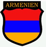 Emblem of the Armenian Legion